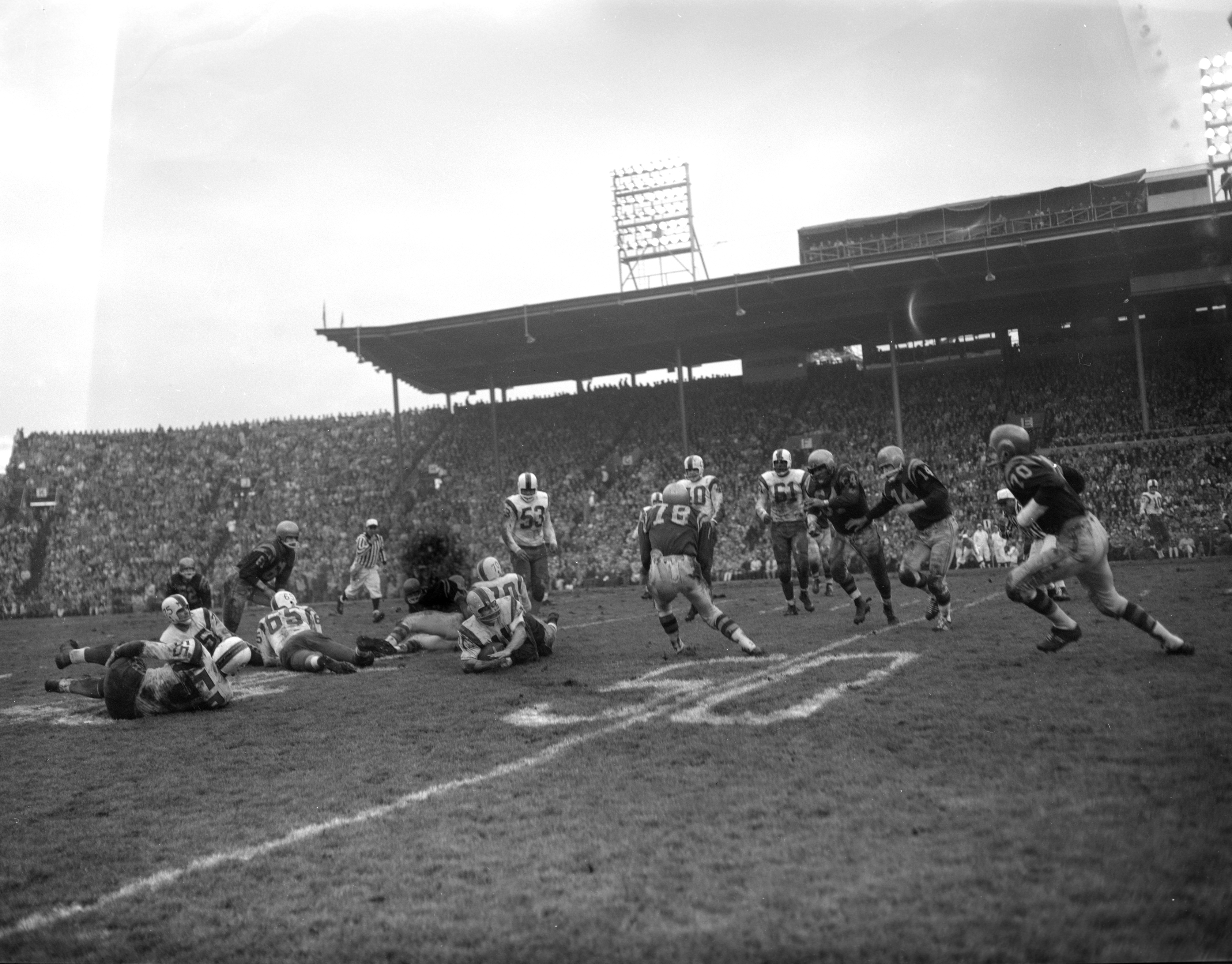 Grey Cup football game VPL Accession Number: 43943 Date: November 26, 1960 Photographer/Studio: Province Newspaper Topic: Football Football players Sports Organization: Empire Stadium (Vancouver, B.C.) Location: British Columbia - Vancouver More information on our historical photograph collection